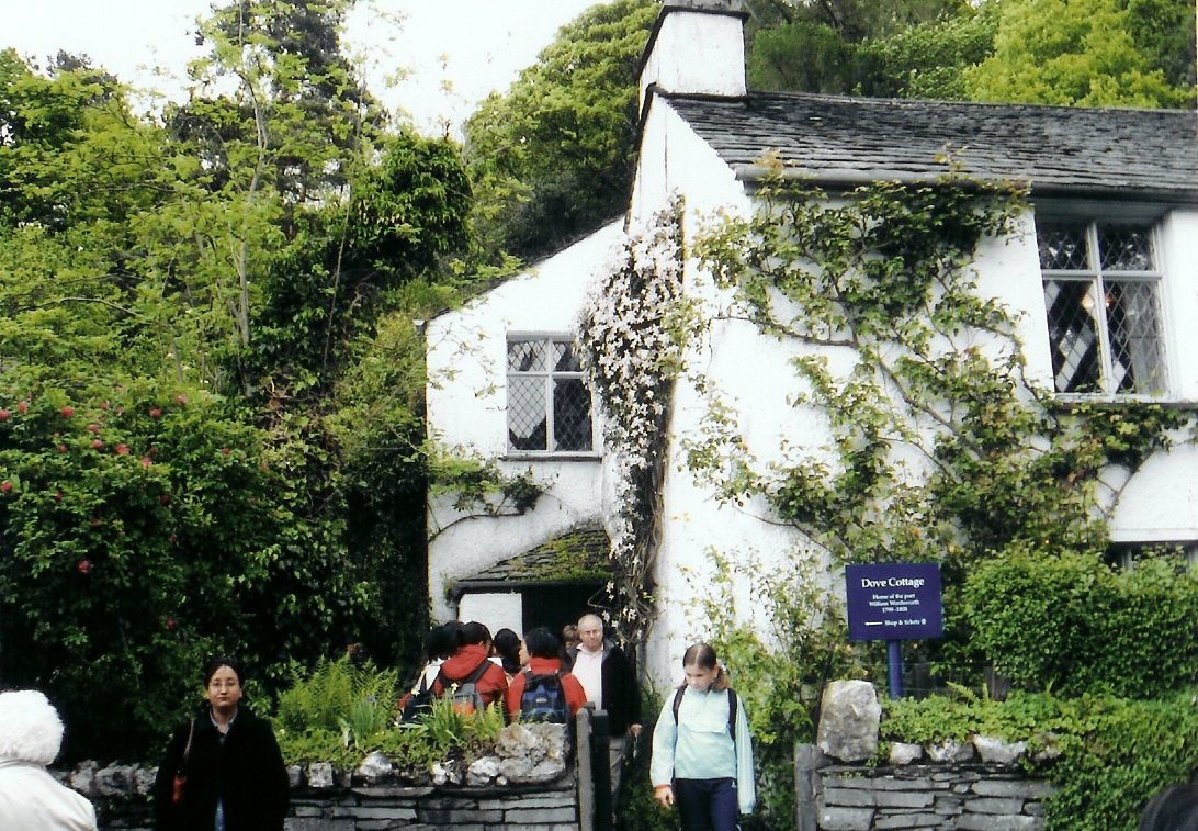 Dove Cottage in Grasmere, Cumbria